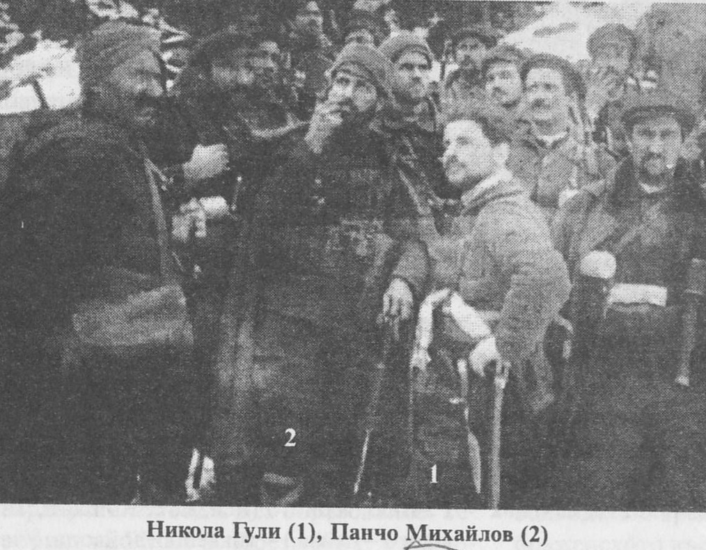 Nikola Gulev and Pancho Mihailov - voivodas from IMRO